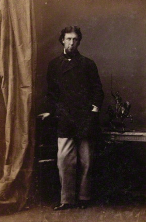 Bertram Wodehouse Currie by Camille Silvy albumen print, 19 April 1861 3 3/8 in. x 2 1/4 in. (85 mm x 56 mm) image size Purchased, 1904 Photographs Collection NPG Ax52587